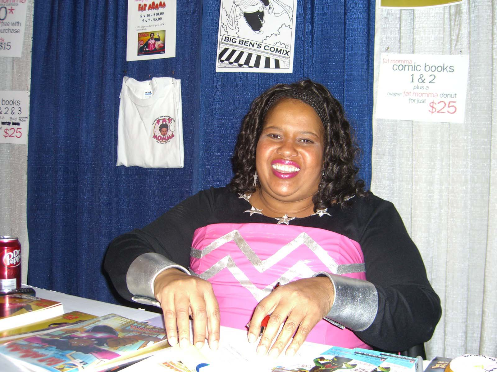 Comic book character and Who Wants to Be a Superhero? contestant Fat Momma at the New York Comic Convention in Manhattan, April 20, 2008.